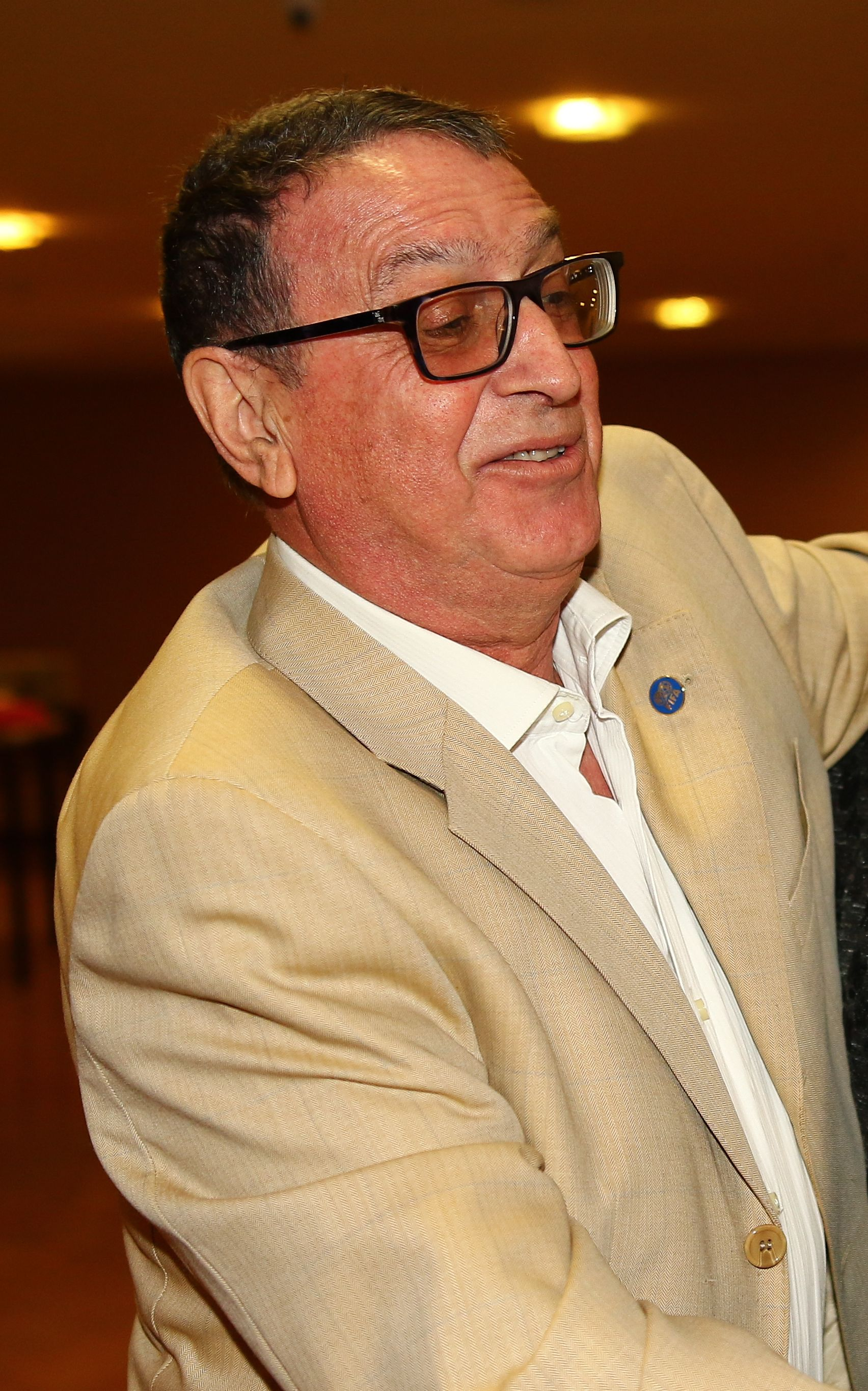 Dr. Mihail Iliev - Bulgarian sports doctor, chess player.